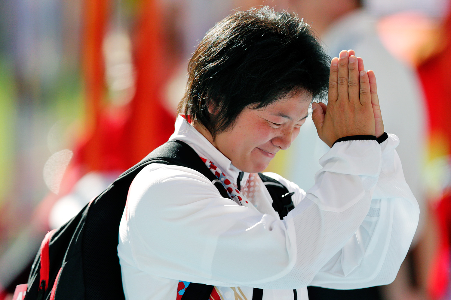 Yuki Ebihara at 2013 World Championships in Athletics